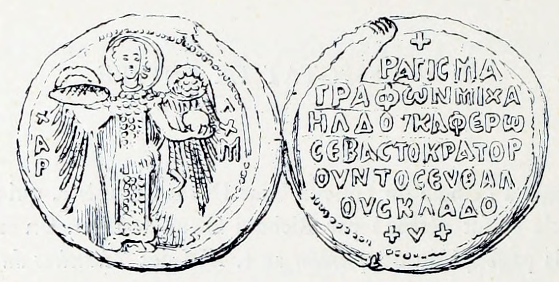 Seal of Michael Komnenos Doukas, founder of the Despotate of Epirus.